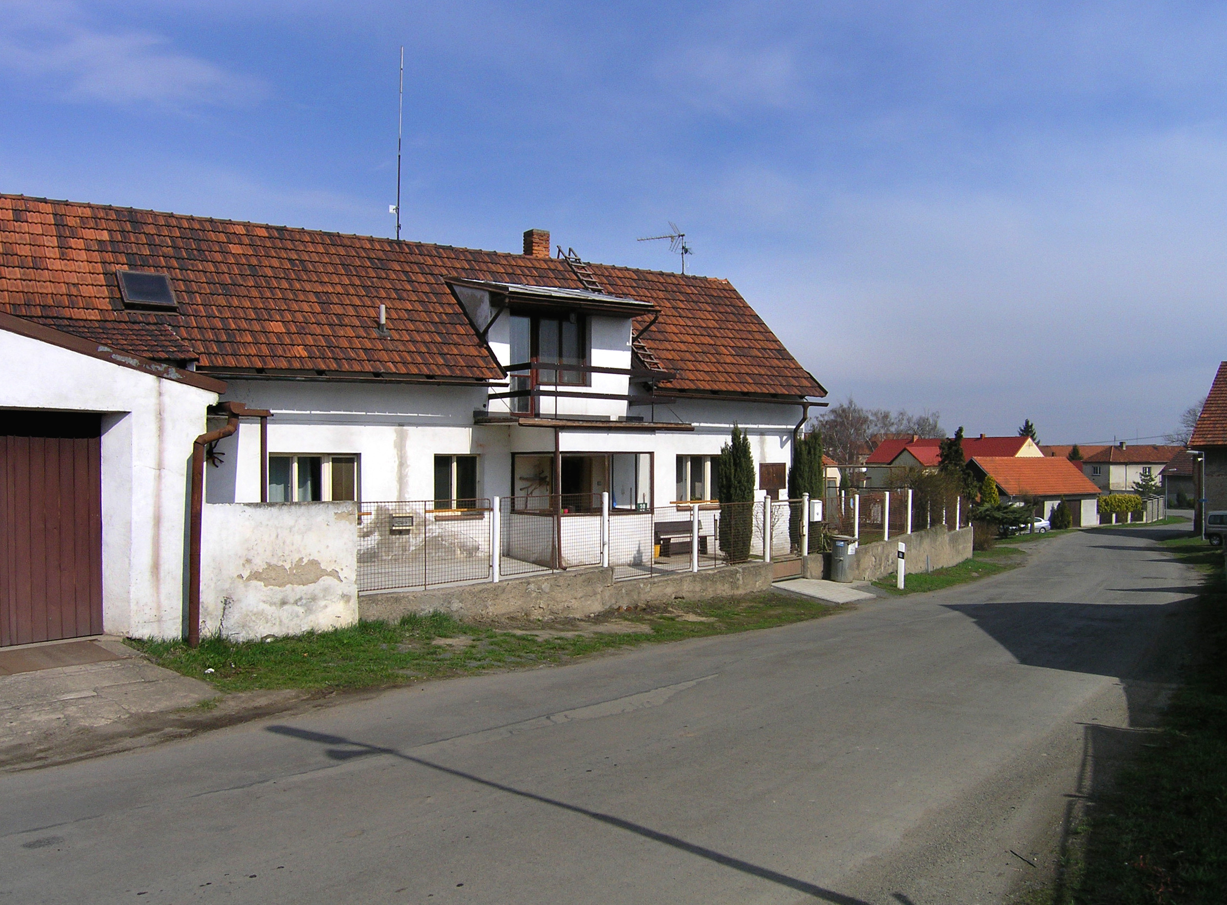 Main street in Kozomín village, Czech Republic